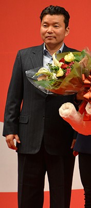 Hwang Young-Jo, Choi Min-Jung, Kim Chung-Yong, Jang Mi-Ran